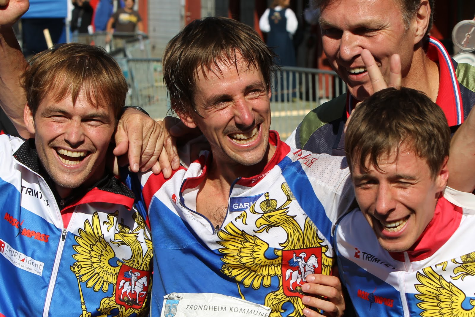 Russian team (Andrey Khramov, Valentin Novikov, Dmitry Tsvetkov) at the finish at World Orienteering Championships 2010 in Trondheim, Norway